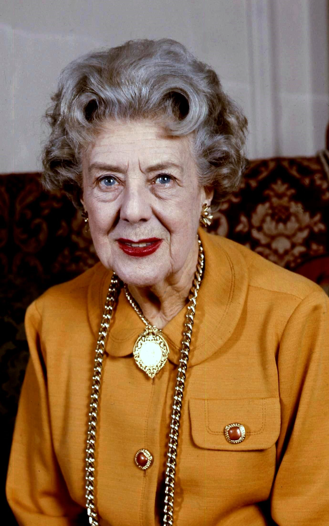 portrait of Dame Cicely Courtneidge taken at her home in Mayfair London